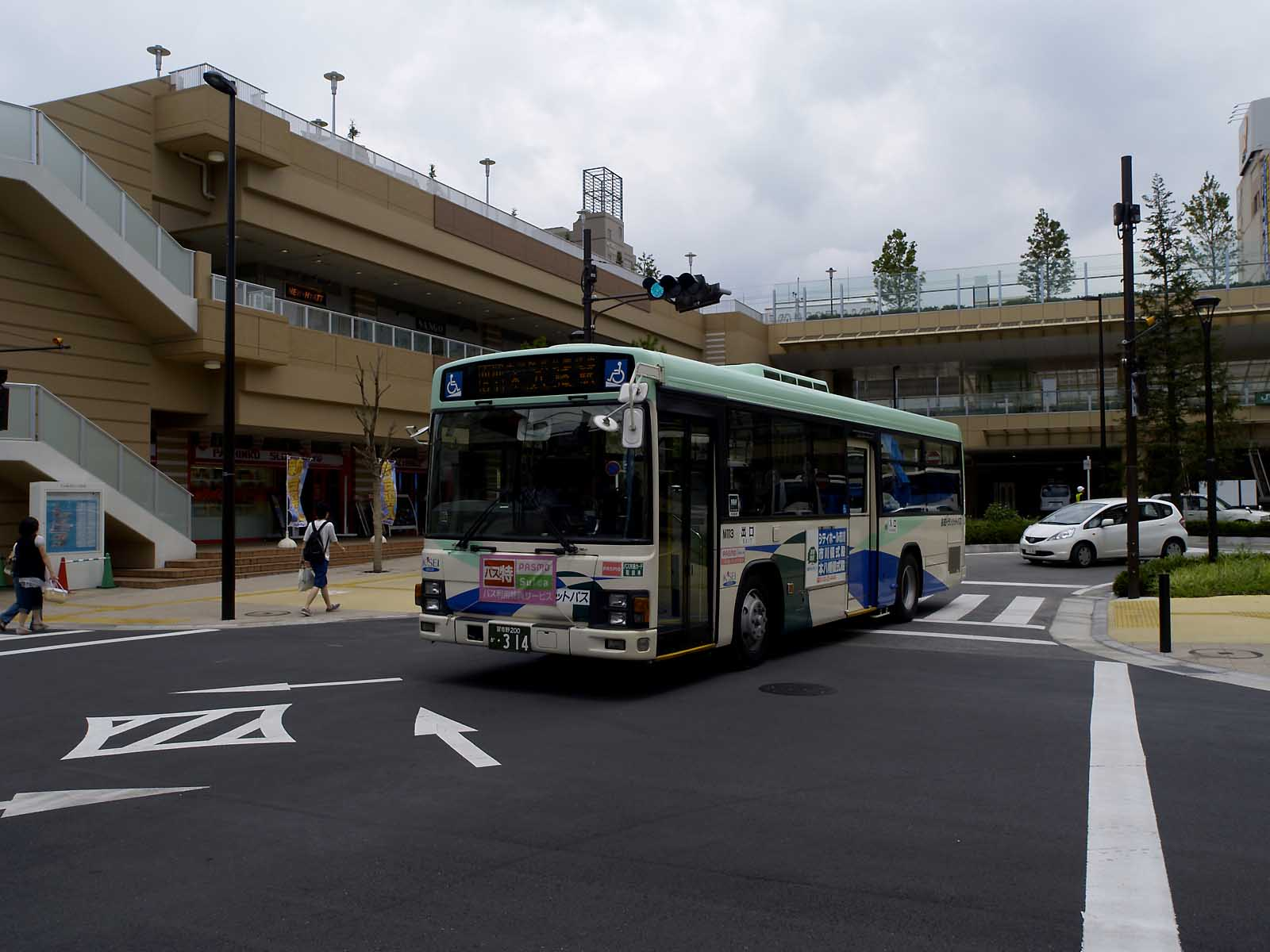 Fleet of Keisei Transit Bus. (ex. Ichikawa Kotsu Jidosha) Model: Isuzu Erga KL-LV280L1 License plate: CBN200 KA-314 Place: JR Ichikawa Station, Ichikawa City, Chiba Japan